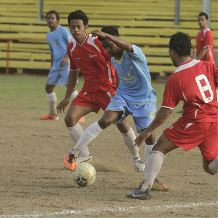 Sogivalu_02